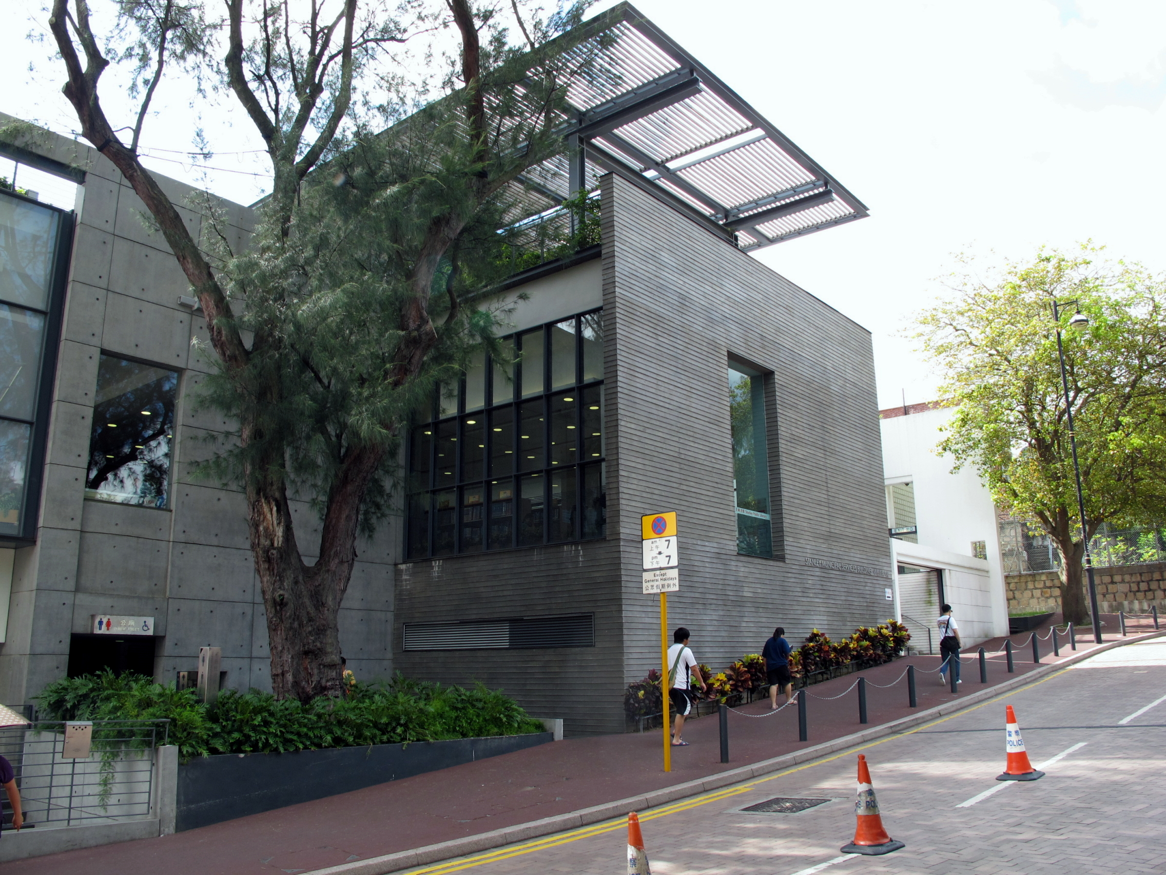 Stanley Public Library Exterior